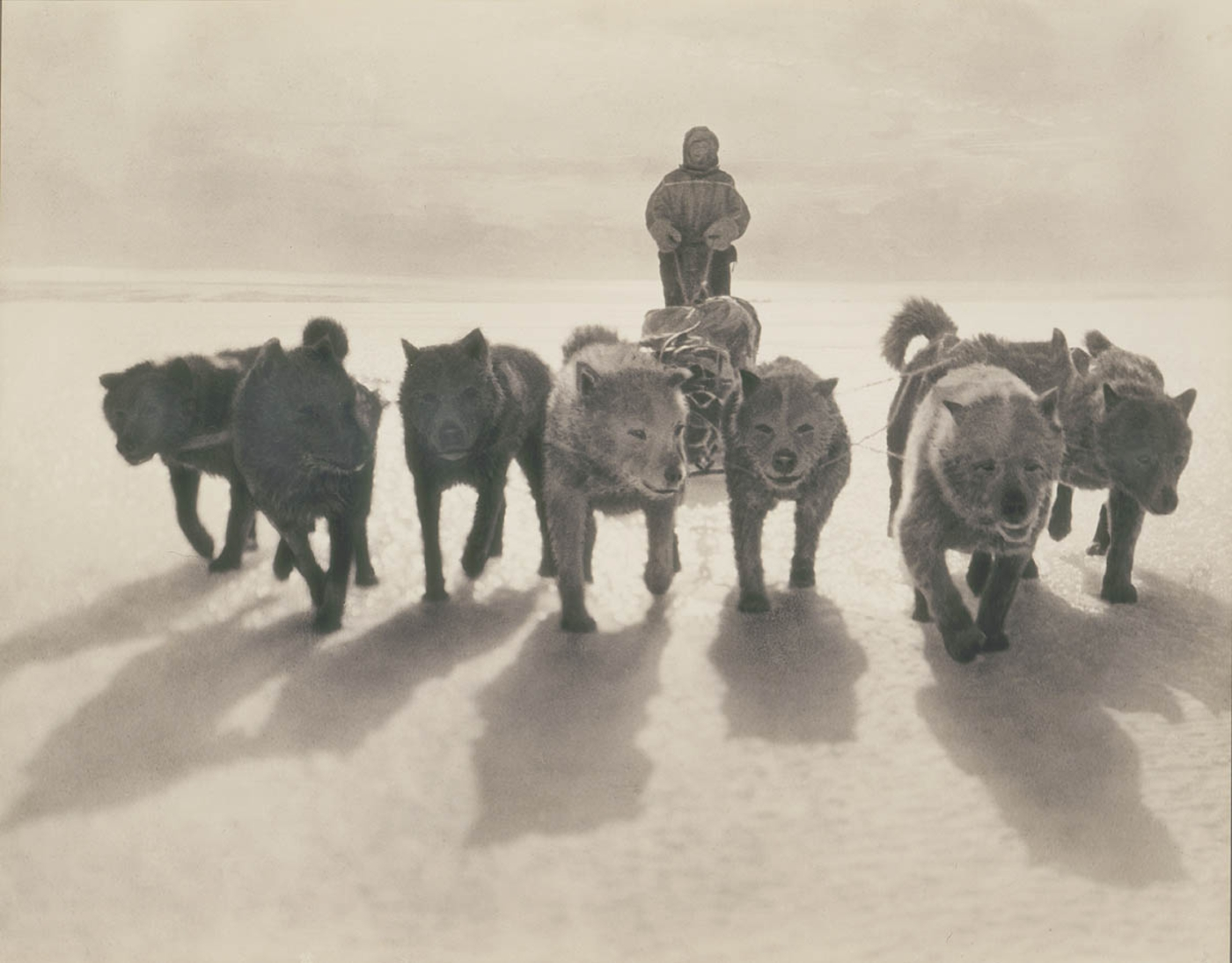 Format: Silver gelatin photoprint Notes: First Australasian Antarctic Expedition, 1911-1914 From the collections of the Mitchell Library, State Library of New South Wales Information about photographic collections of the State Library of New South Wales .au/search/SimpleSearch.aspx Persistent url: .au/item/itemDetailPaged.aspx?itemID=17574